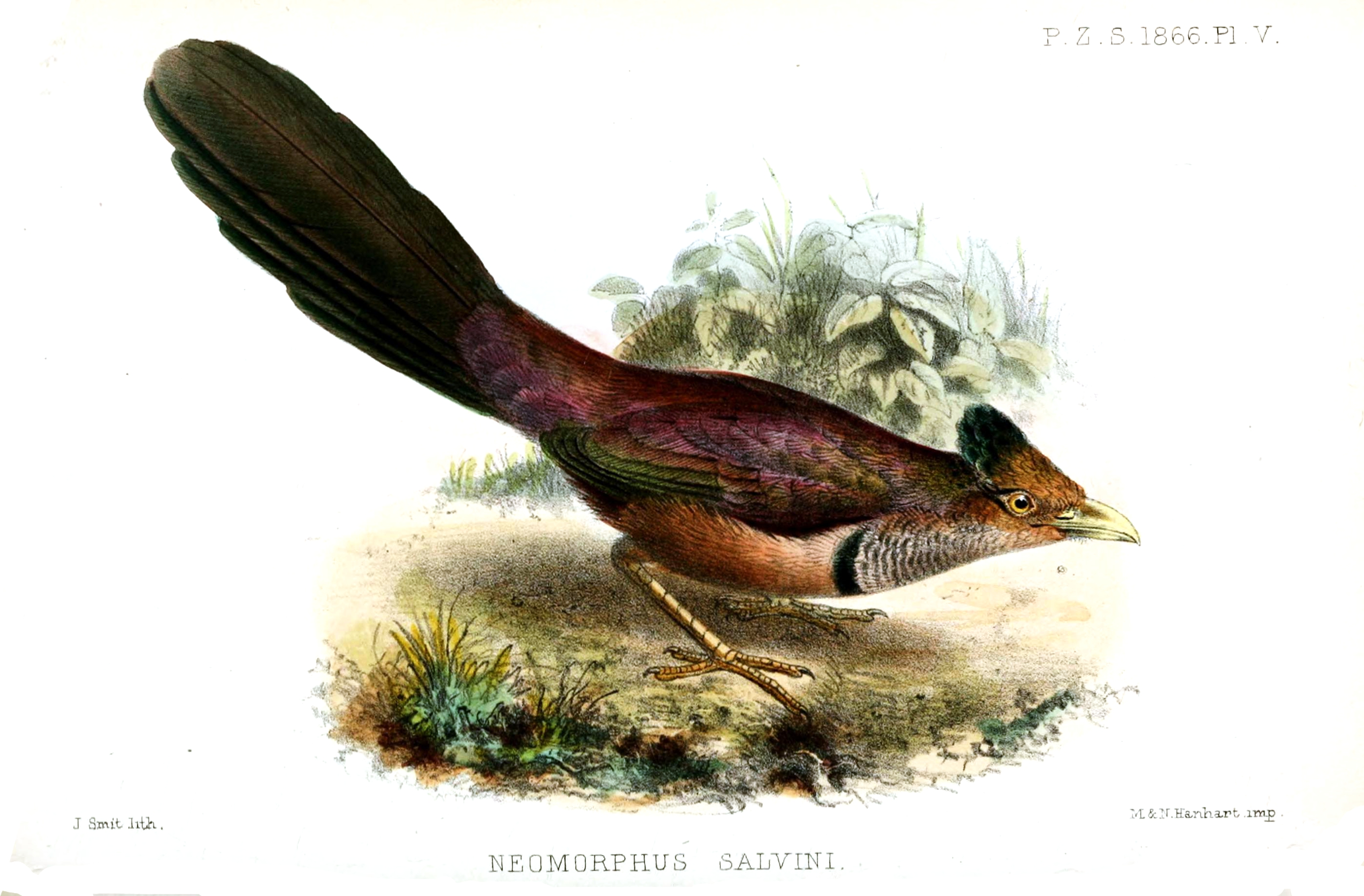 Neomorphus geoffroyi salvini